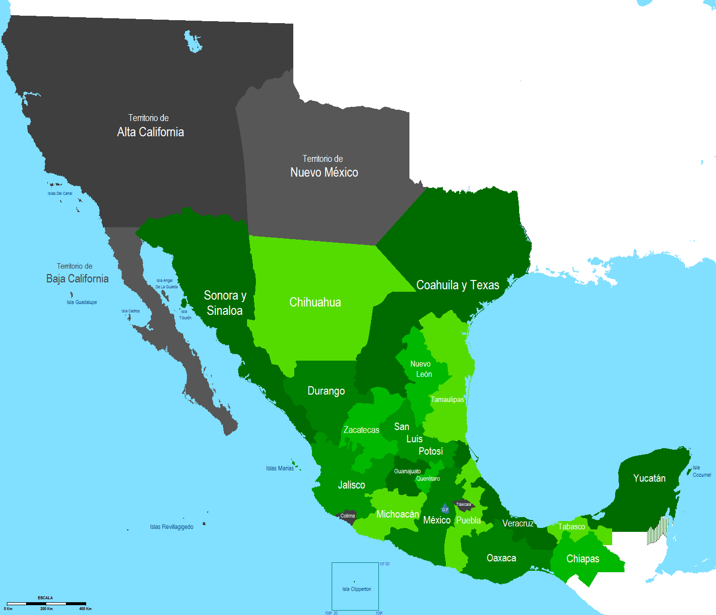 First Federal Republic 1825